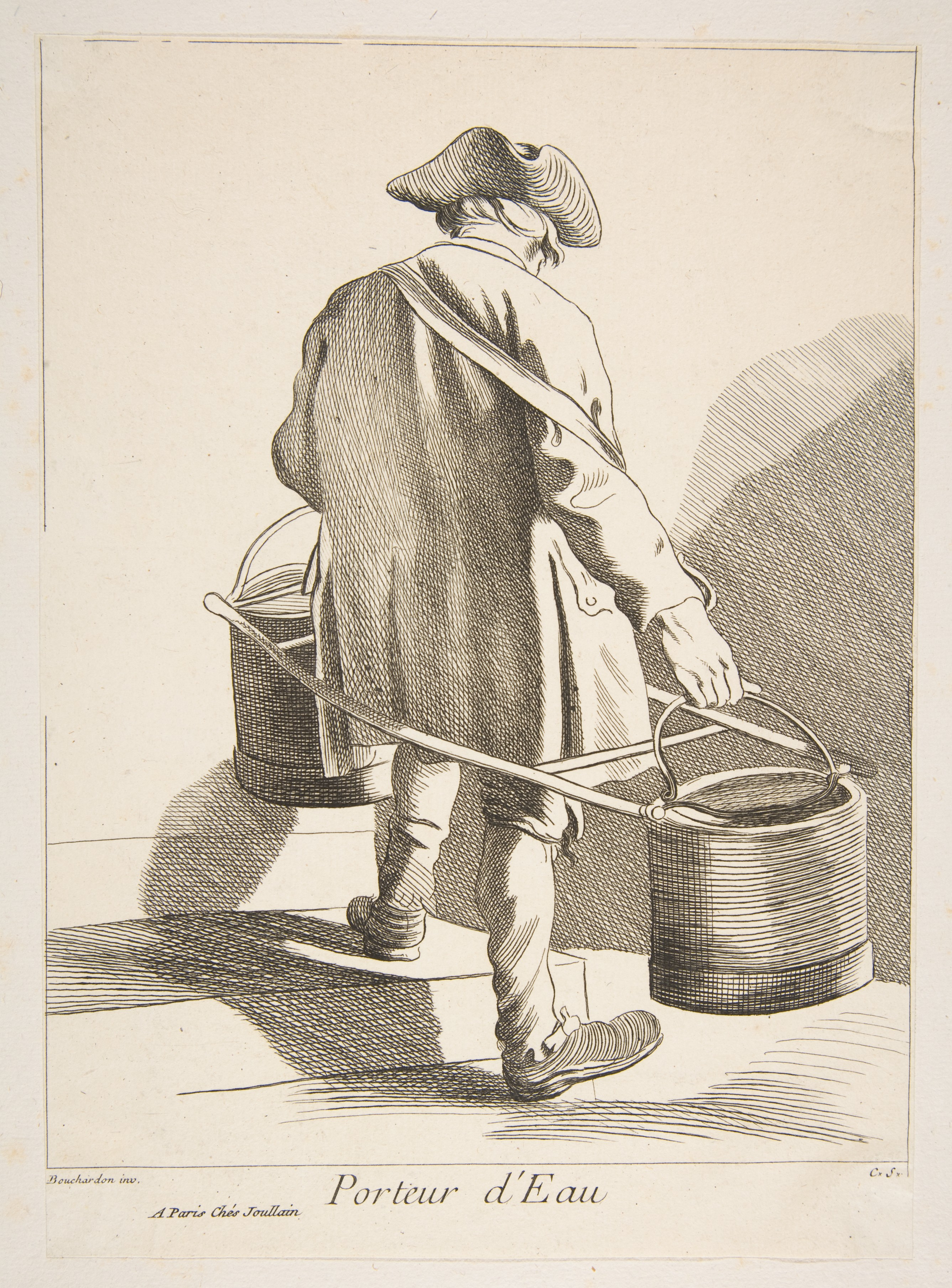 Water Carrier. A man seen from behind and carrying two buckets.